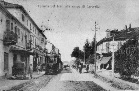 Cavoretto, tramway stop